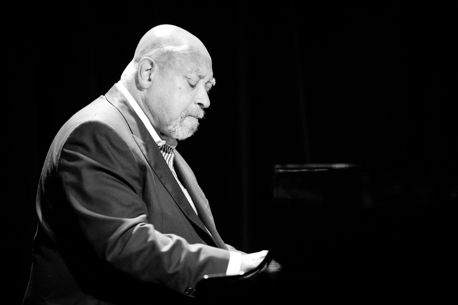 Kenny Barron at Victoria Teater. The concert was part of Oslo Jazzfestival and took place on 13. August 2018 in Oslo. Lineup: Kenny Barron (piano) Kiyoshi Kitagawa (double bass) Johnathan Blake (drums)